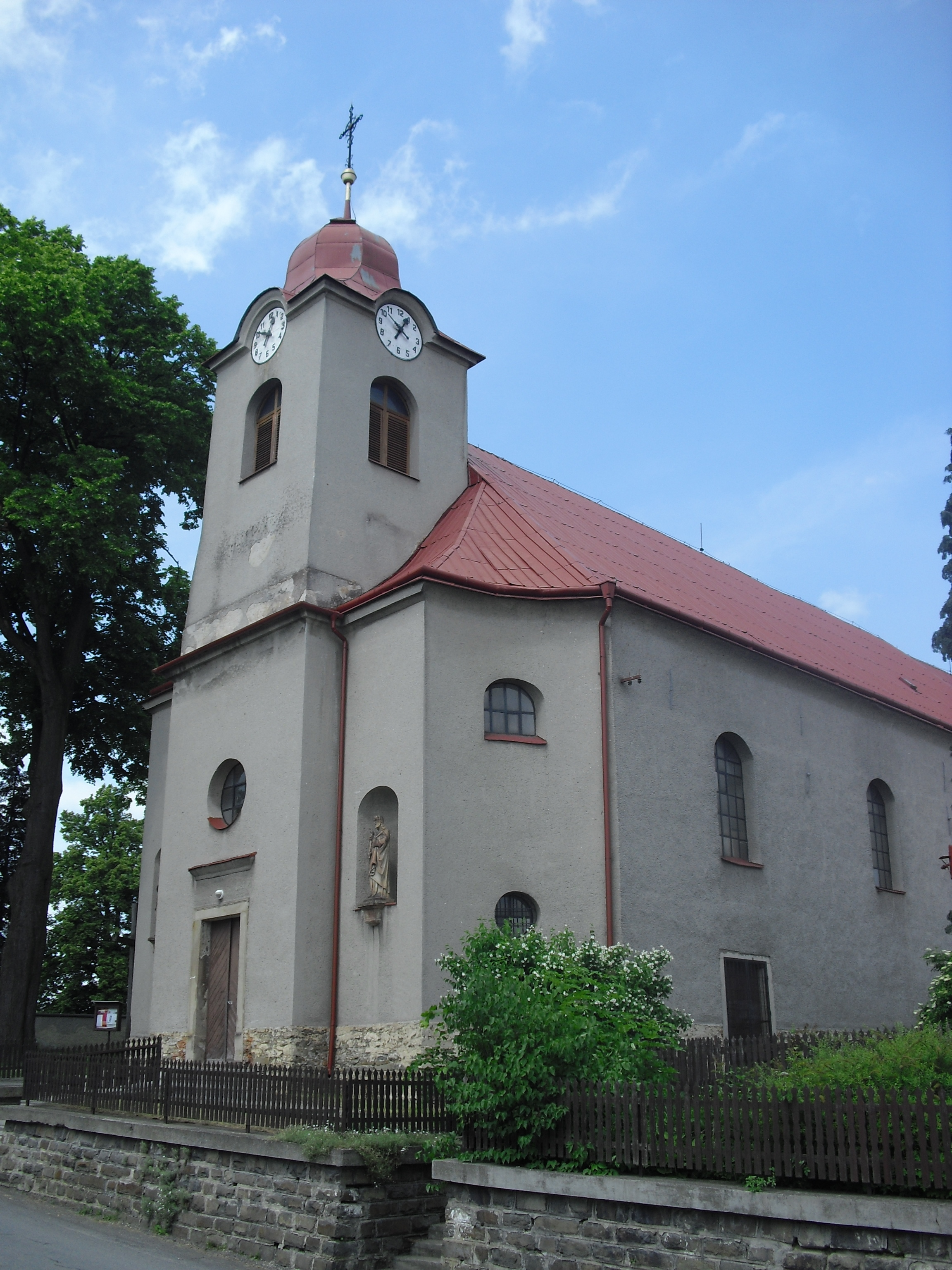 Heřmanice u Oder, Nový Jičín District, Czech Republic, part Véska. Church of the Visitation.